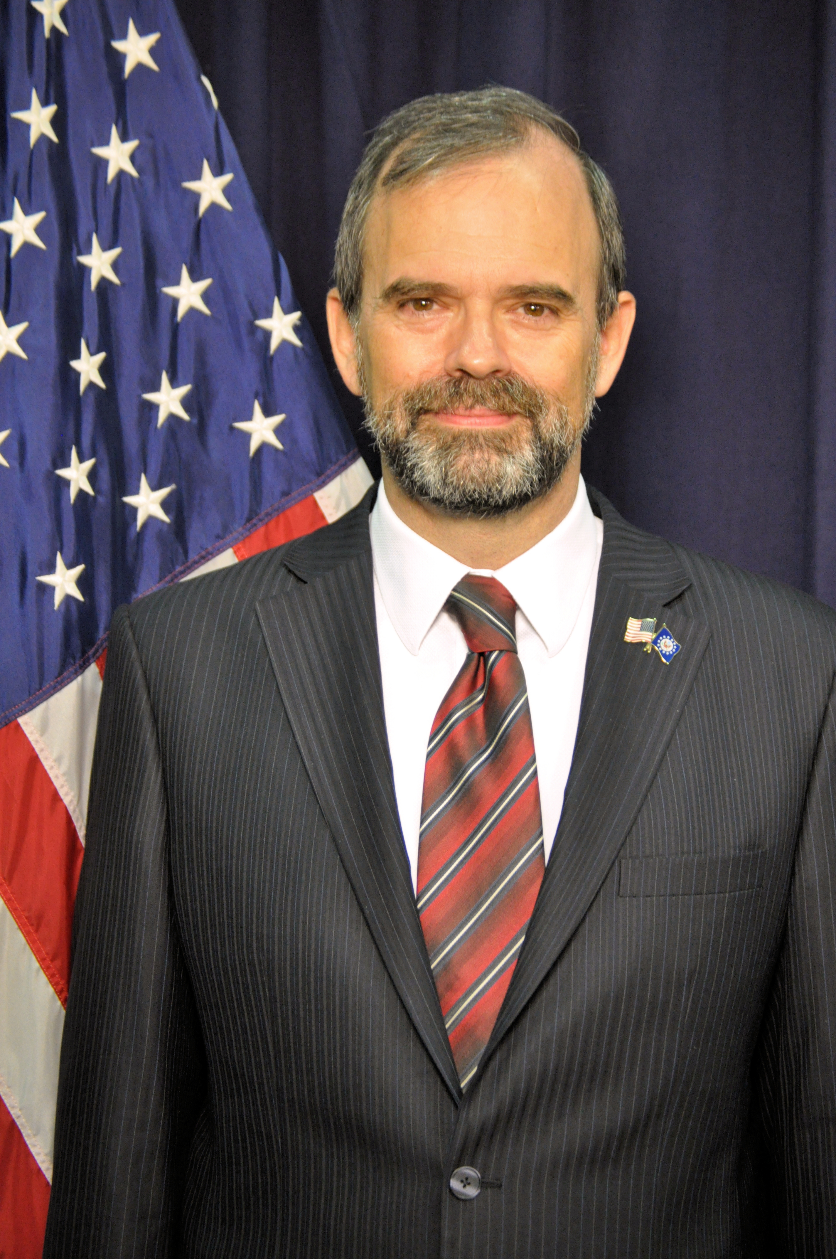 Kenneth J. Fairfax U.S. Ambassador to Kazakhstan.